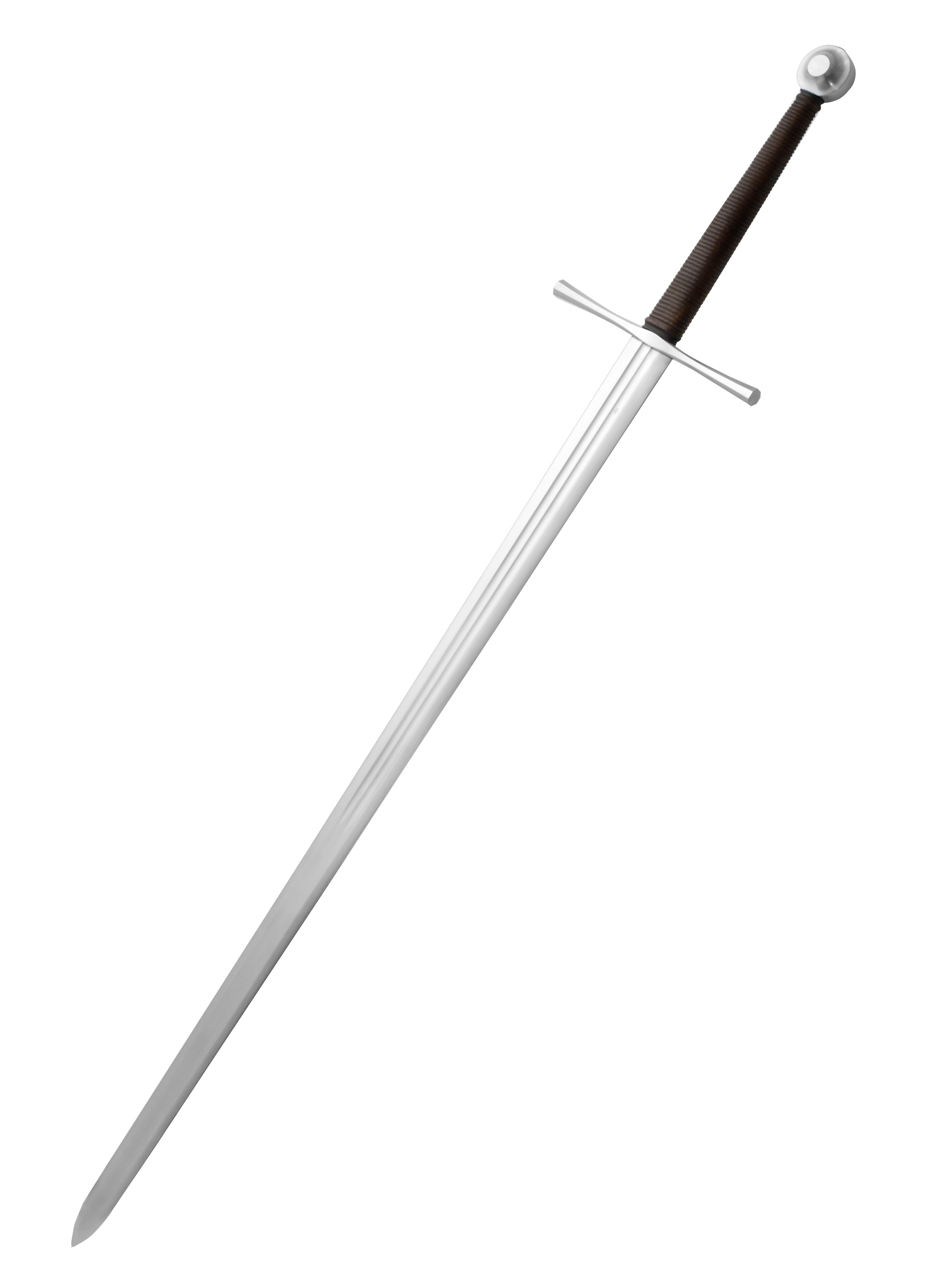 Replica of Albion Arch Duke Two-handed Medieval Sword by Søren Niedziella from Denmark